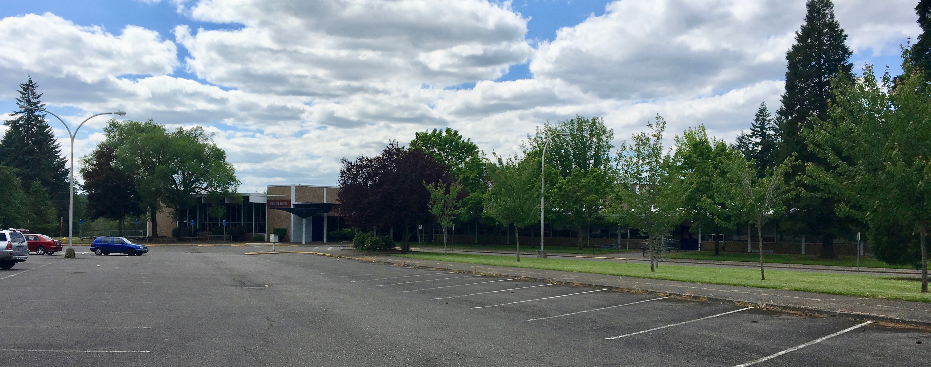 Whitford Middle School is part of the Beaverton School District.